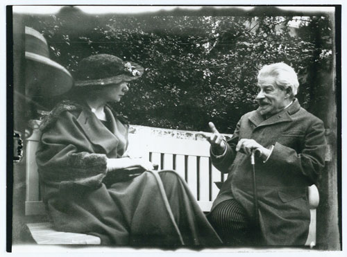 Brandespic